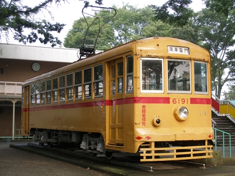 Model 6000-Metropolitan Streetcar-,Tokyo Metropolitan Bureau of Transportation,Tokyo,Japan. 30,JUL 2007. yuta_i take a photograph.